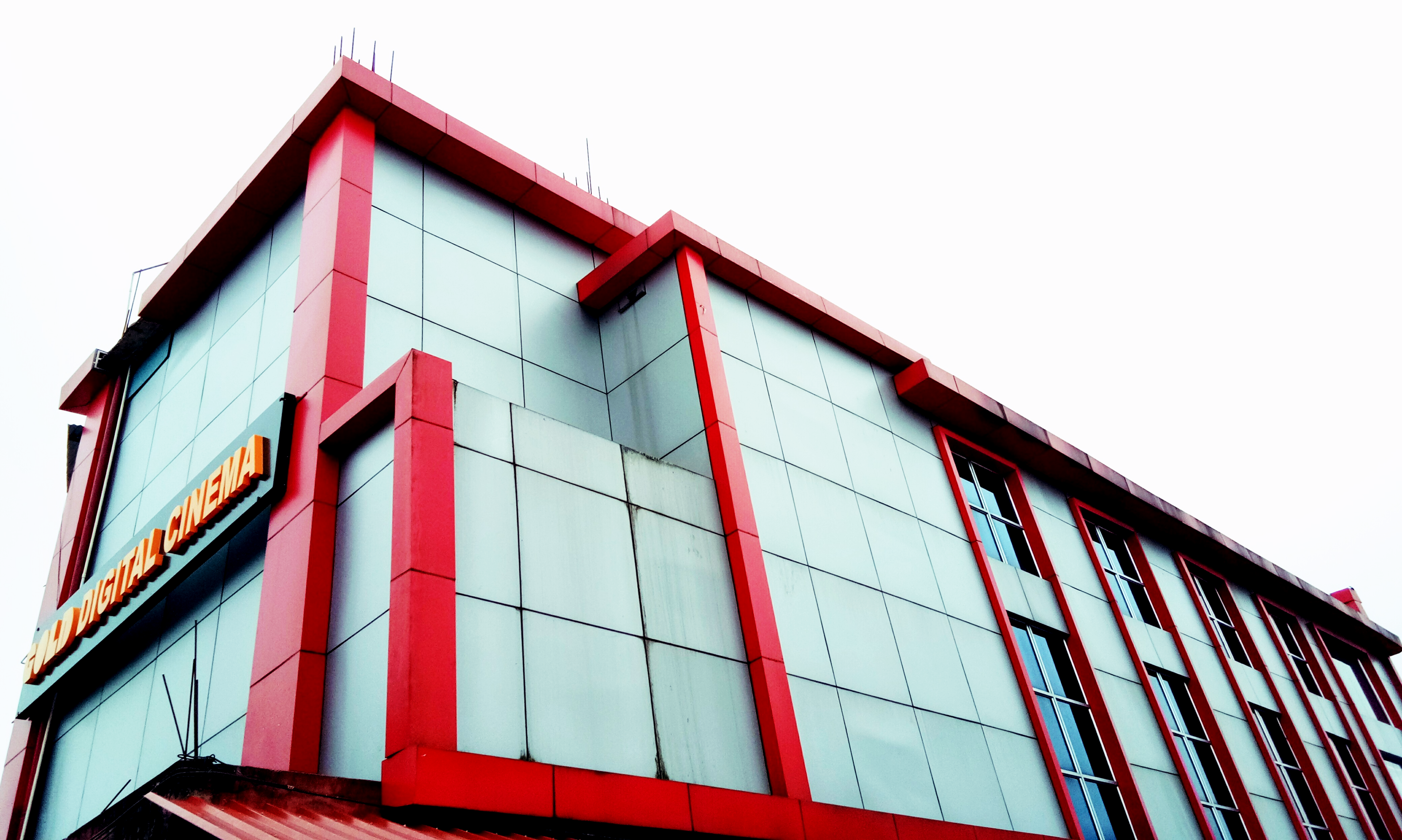 Gold Cinema Multiplex Screen – Golaghat